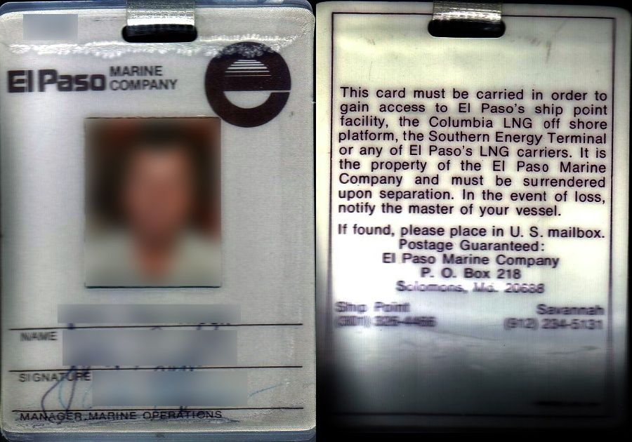 Front (left side) and back of an El Paso Marine Corporation badge used by a crew member of the LNG El Paso Sonatrach LNG carrier in the en:1970s. Picture and signatures are blurred on purpose. Scanned and released into the public domain by User:Kallemax.